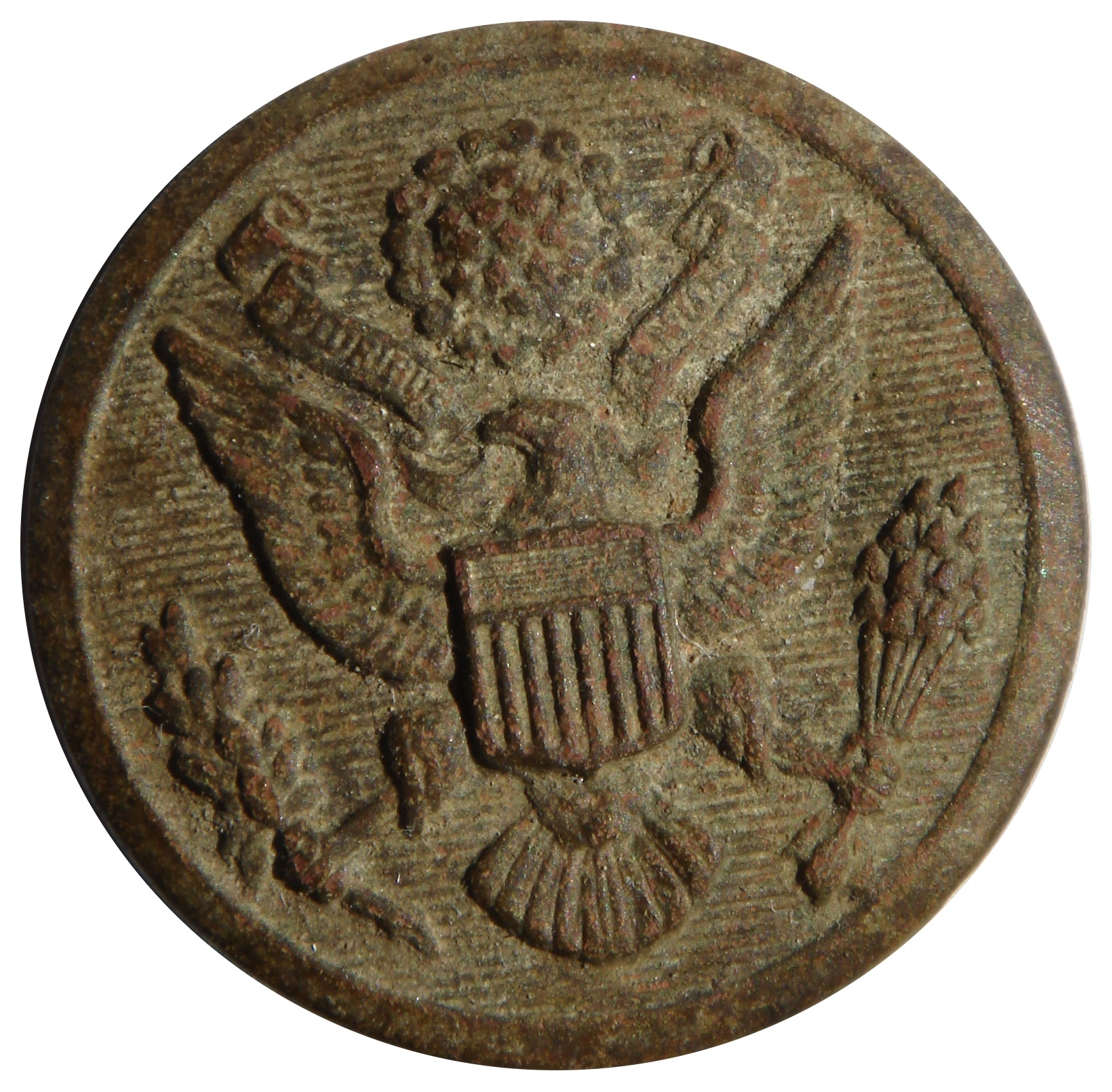 US-Army Tunica Button WW1 - upside found in Kirchberg an der Wild (Austria)